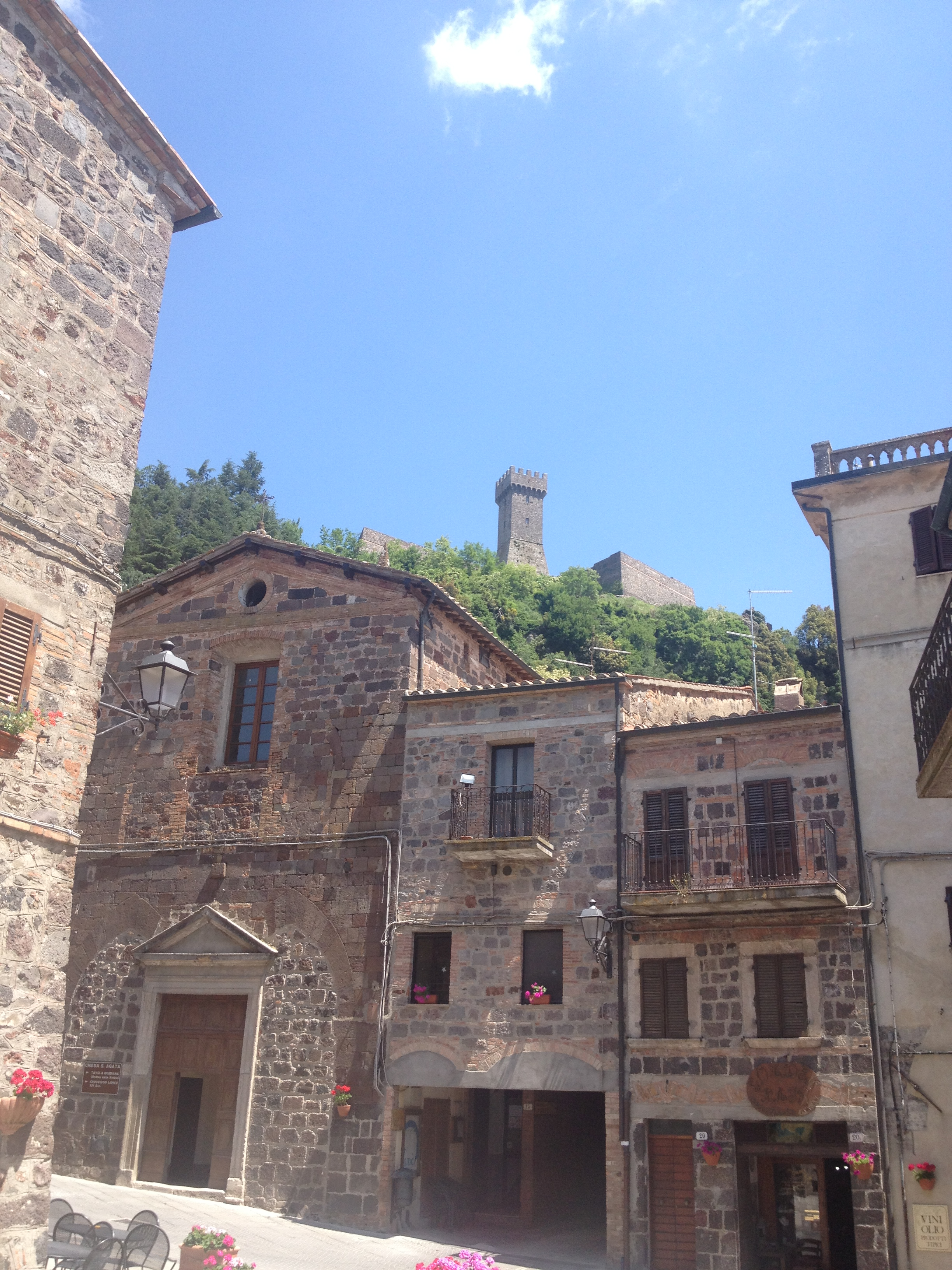 Downtown Radicofani